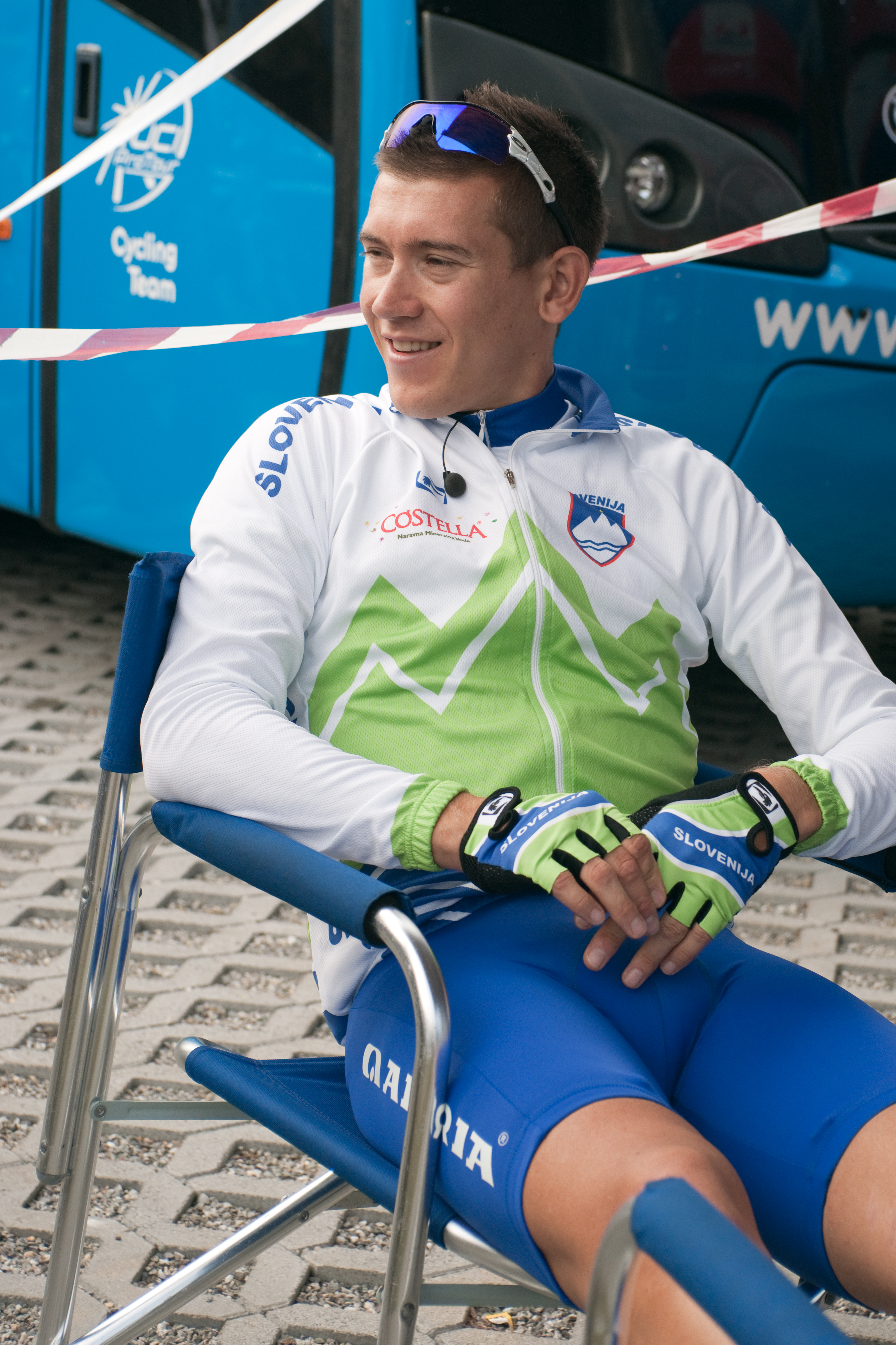 Kristian Fajt during the 2009 UCI Road World Championships in Mendrisio, Switzerland.